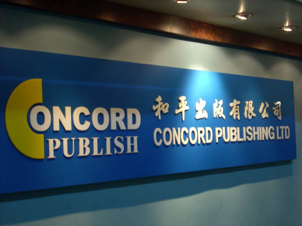 CONCORD PUBLISHING LTD.